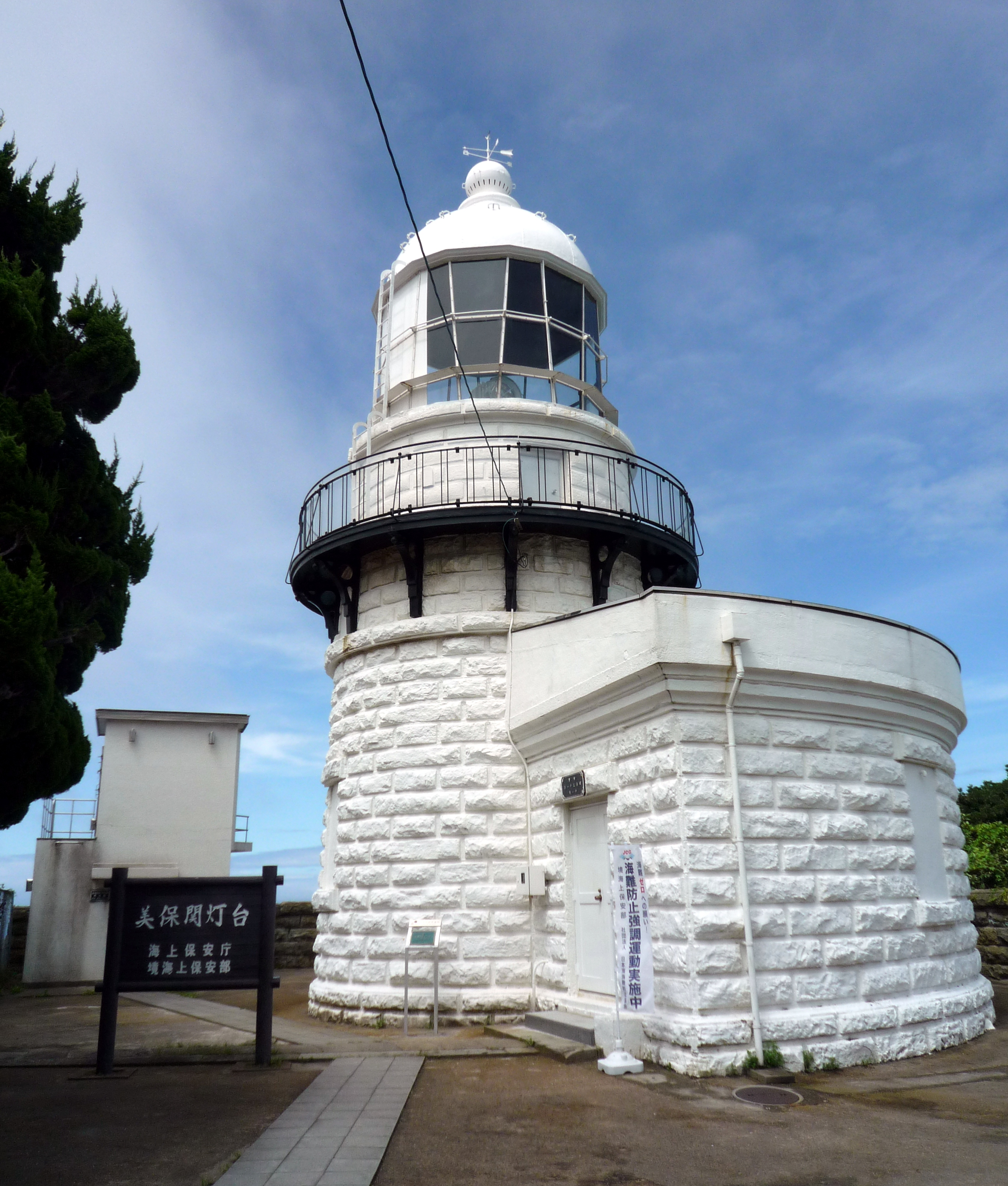 Mihonoseki Lighthouse (Mihonoseki, Matsue, Shimane Prefecture, Japan)